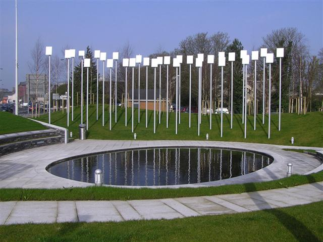 Reflections, Omagh Memorial Garden. It is located off Drumragh Avenue.